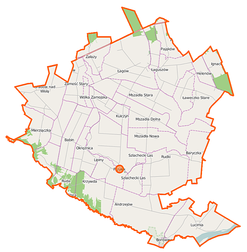 Map of Gmina Przyłęk, Poland This map of Przyłęk (gmina) was created from OpenStreetMap project data, collected by the community. This map may be incomplete, and may contain errors. Don't rely solely on it for navigation. Border coordinates51.407821.6338←↕→21.866951.2598